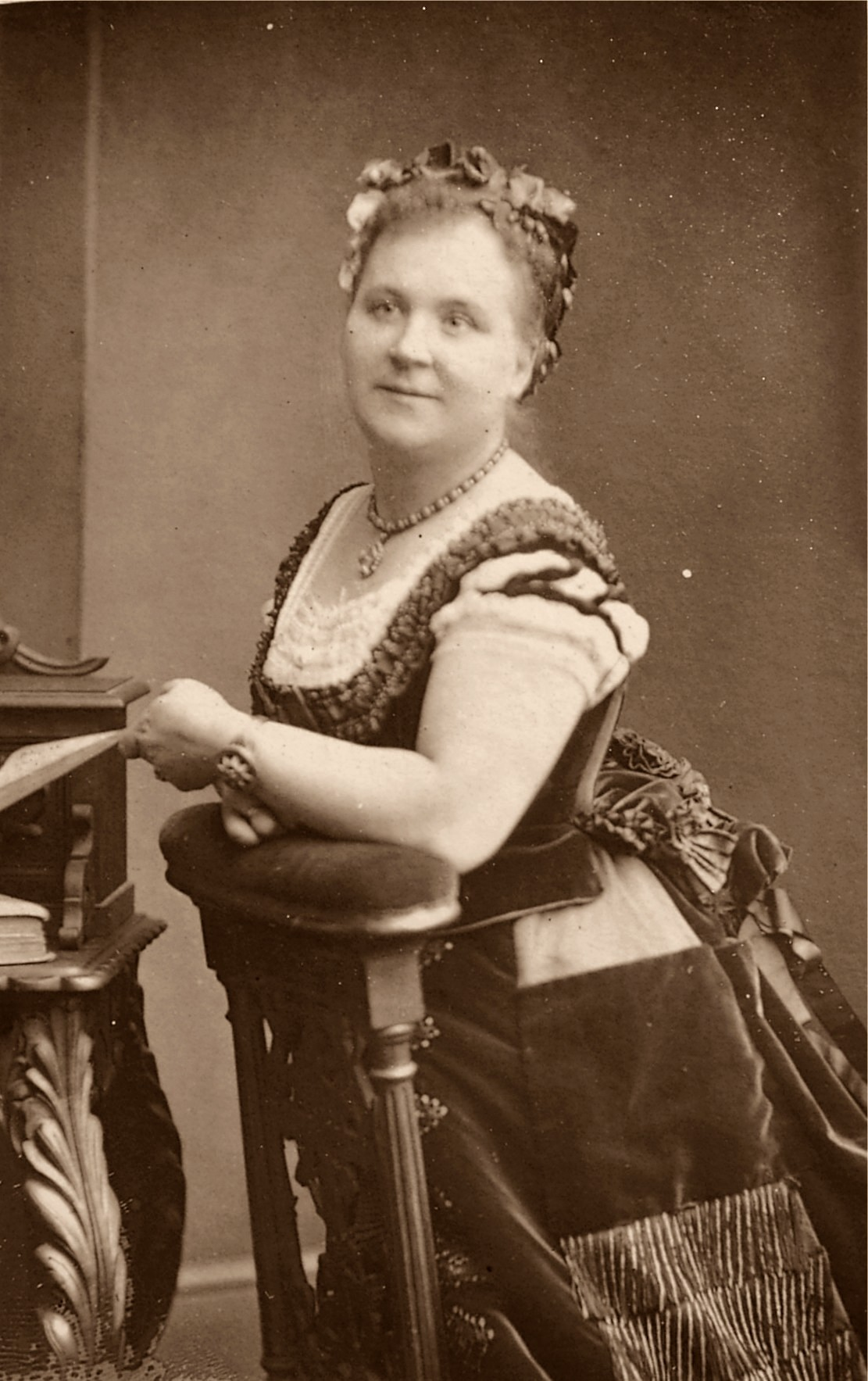 Helen Lemmens-Sherrington 1834-1906, English Opera Singer.